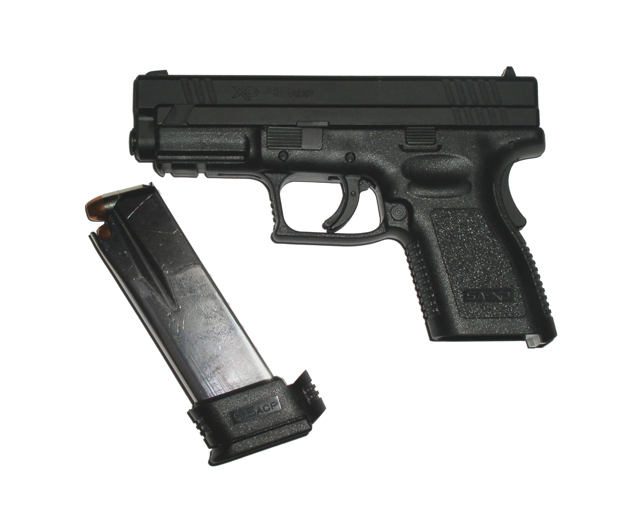 A Springfield XD .45 compact, with a 13 round magazine. This pistol was manufactured in September, 2007 and is owned by me (DanMP5).